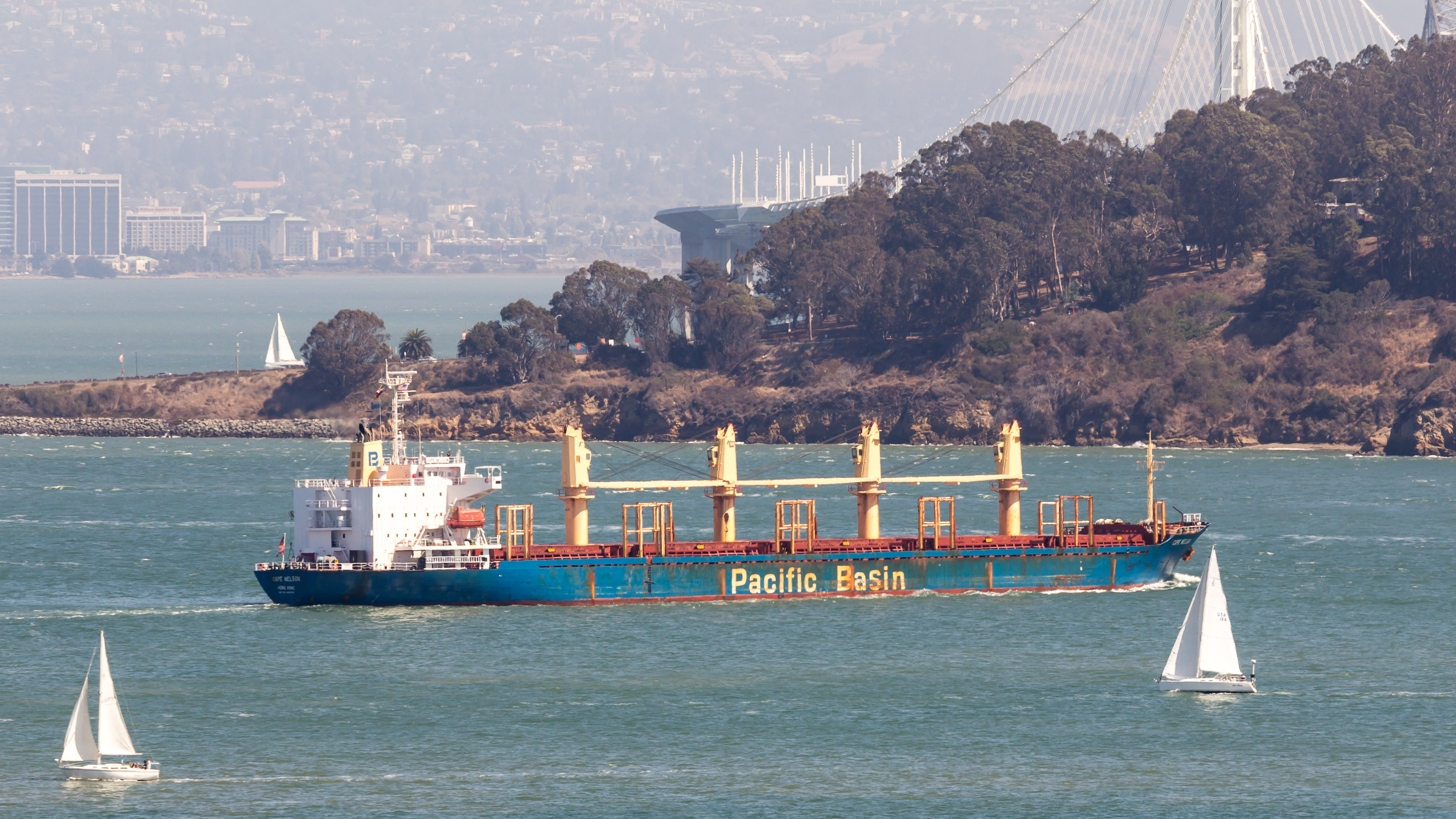 Cape Nelson (IMO: 9218076), Pacific Basin, in the San Francisco Bay